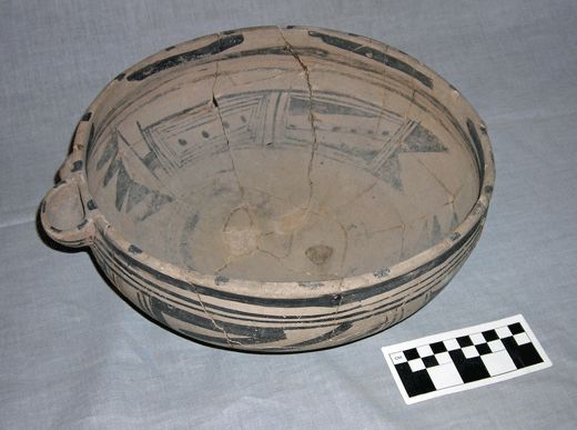 Rio Grande Ware: Biscuit B bowl. Note exterior decoration, which is what distinguishes Biscuit B from Biscuit A.